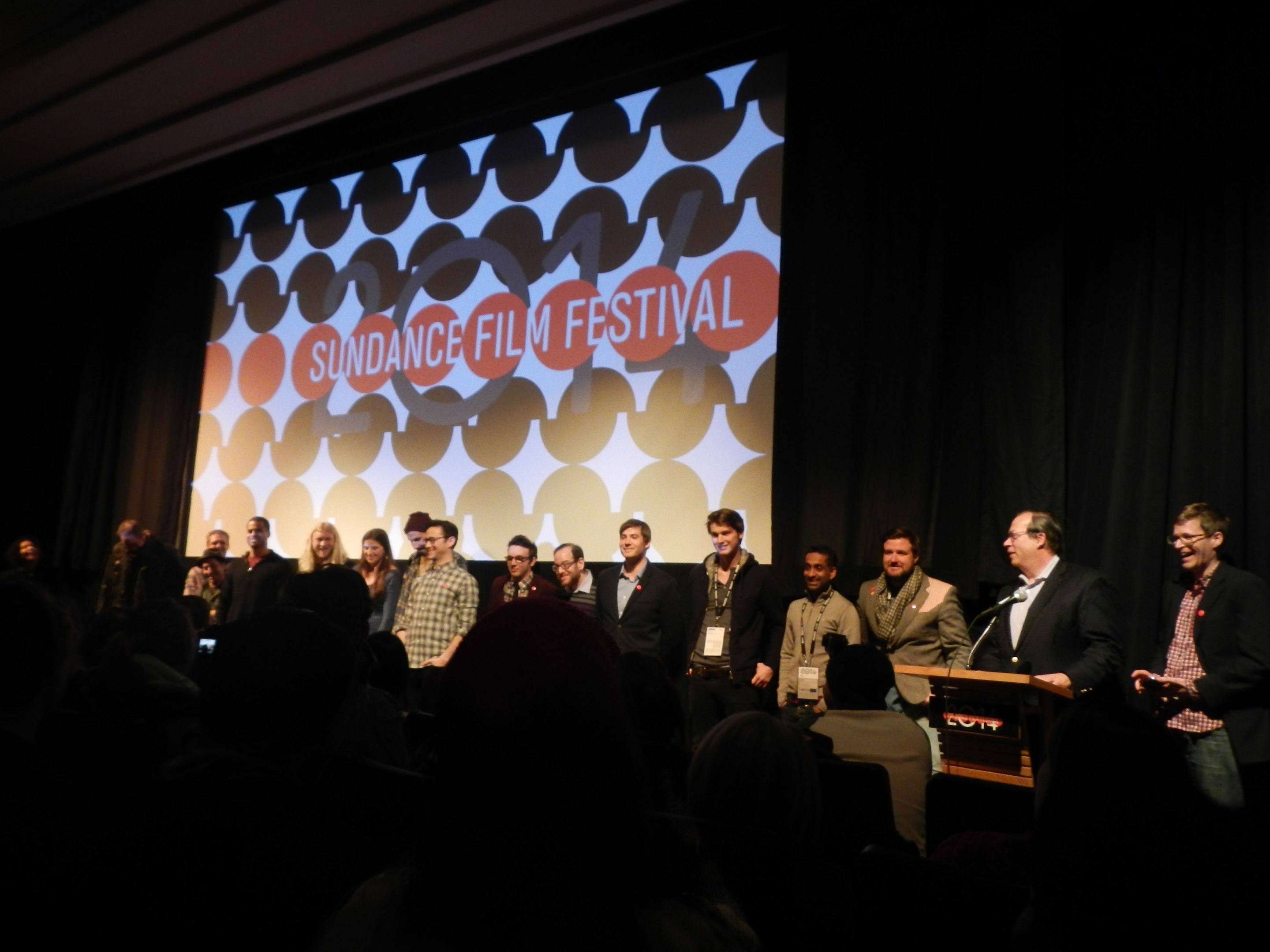 HitRECord on TV at Sundance 2014